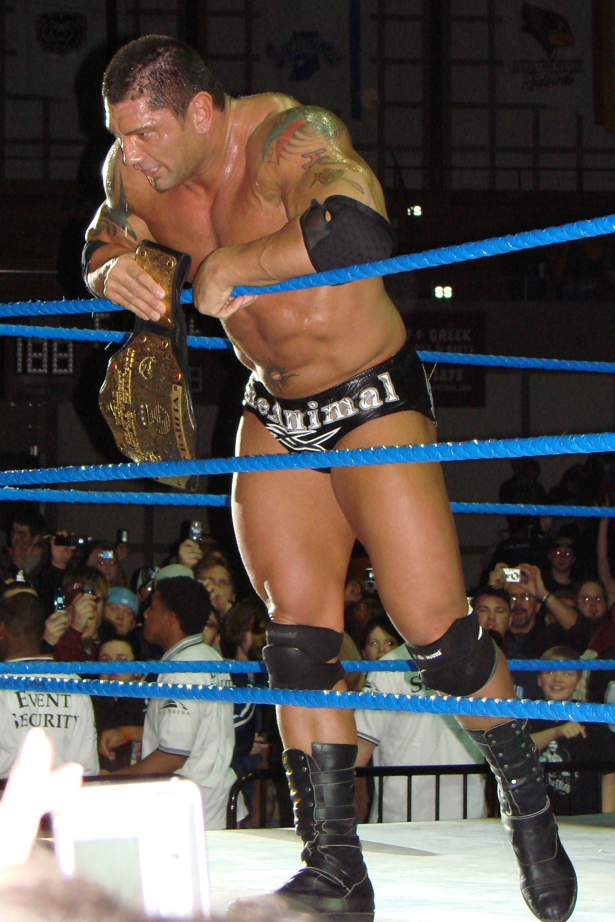 Dave Batista after successfully defending the World Heavyweight Championship (WWE). SIU Arena, Carbondale, IL, February 3en:2007.